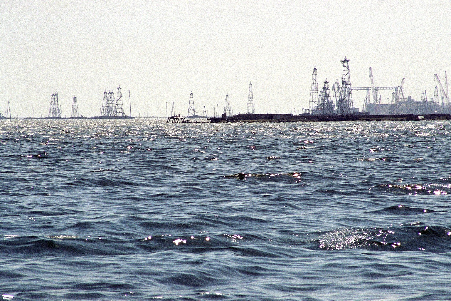 Oil Rocks (Neft Daşları), a full town on sea in Azerbaijan.